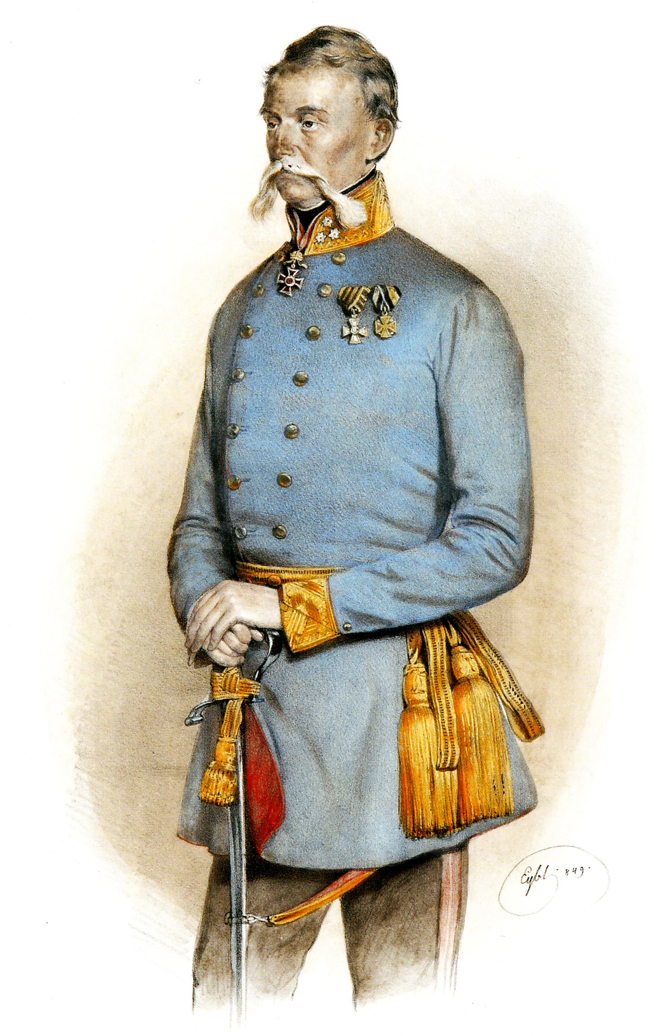 Portrait of Julius von Haynau